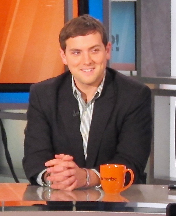 Luke Russert on the MSNBC program Now with Alex Wagner